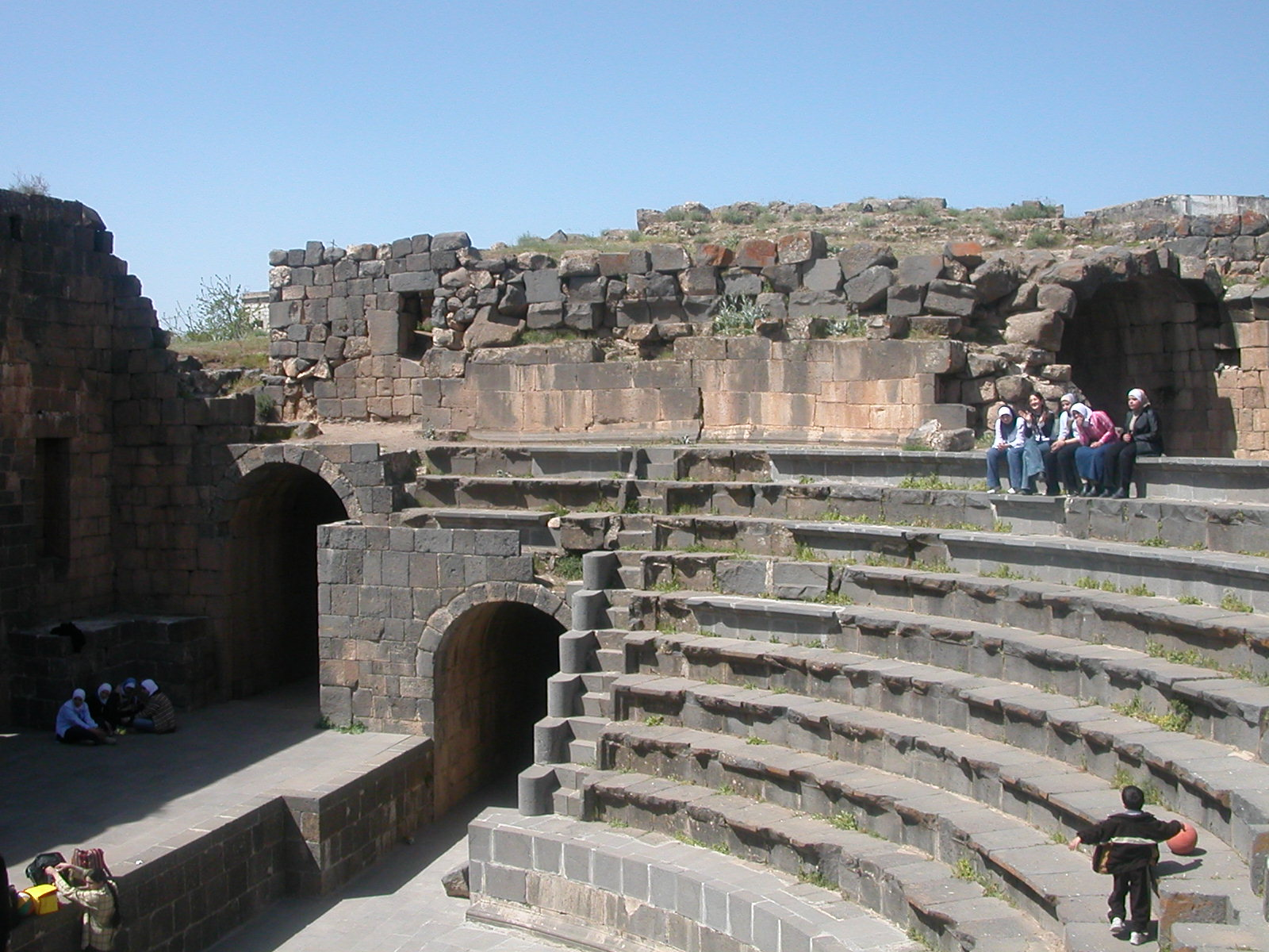 Philipopolis Roman theater